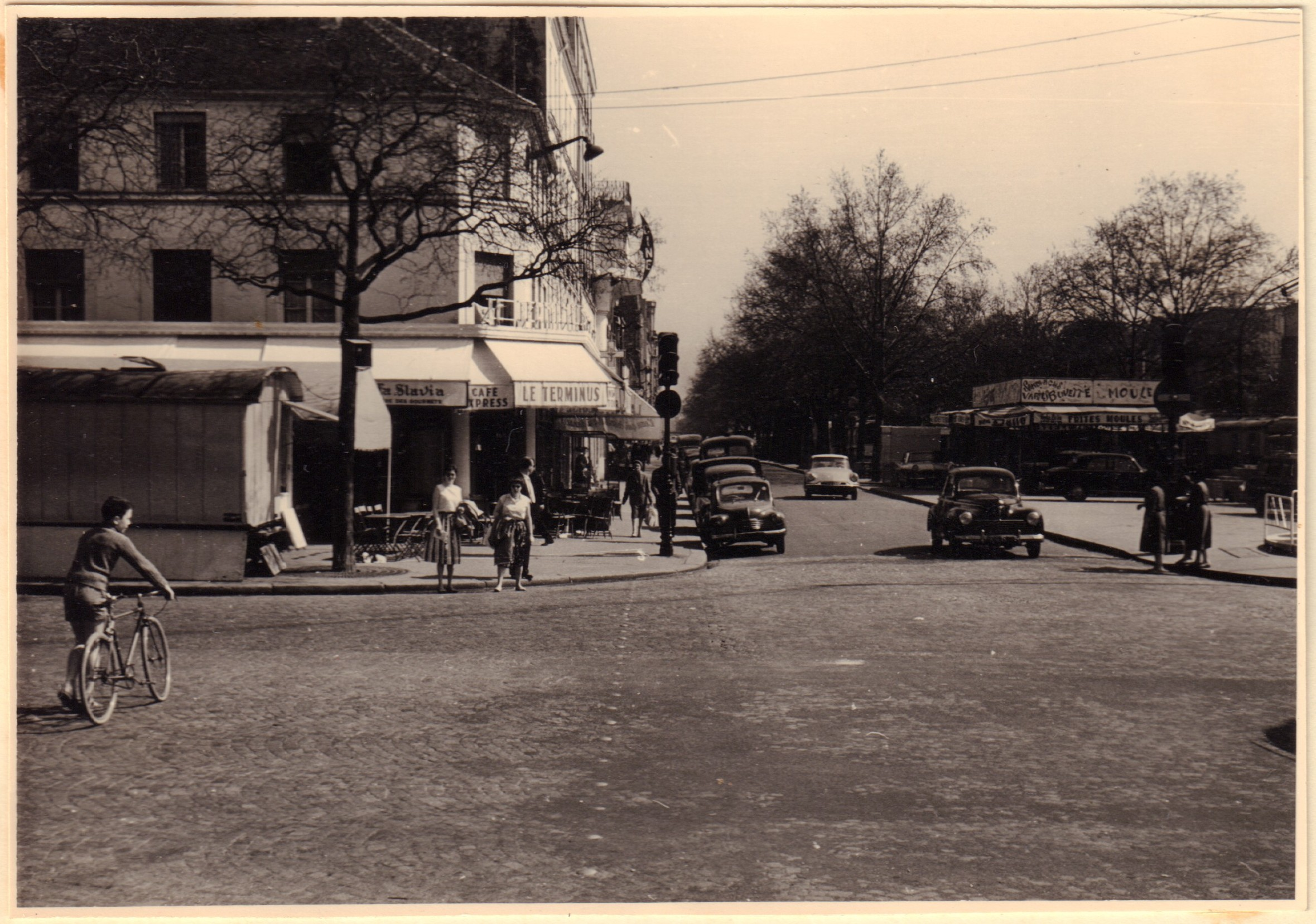 Photographed at Paris d.d. 1959.